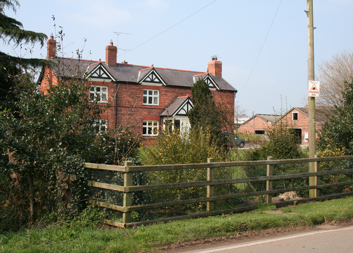 Gates Farm, Winsford Road, Cholmondeston, Cheshire